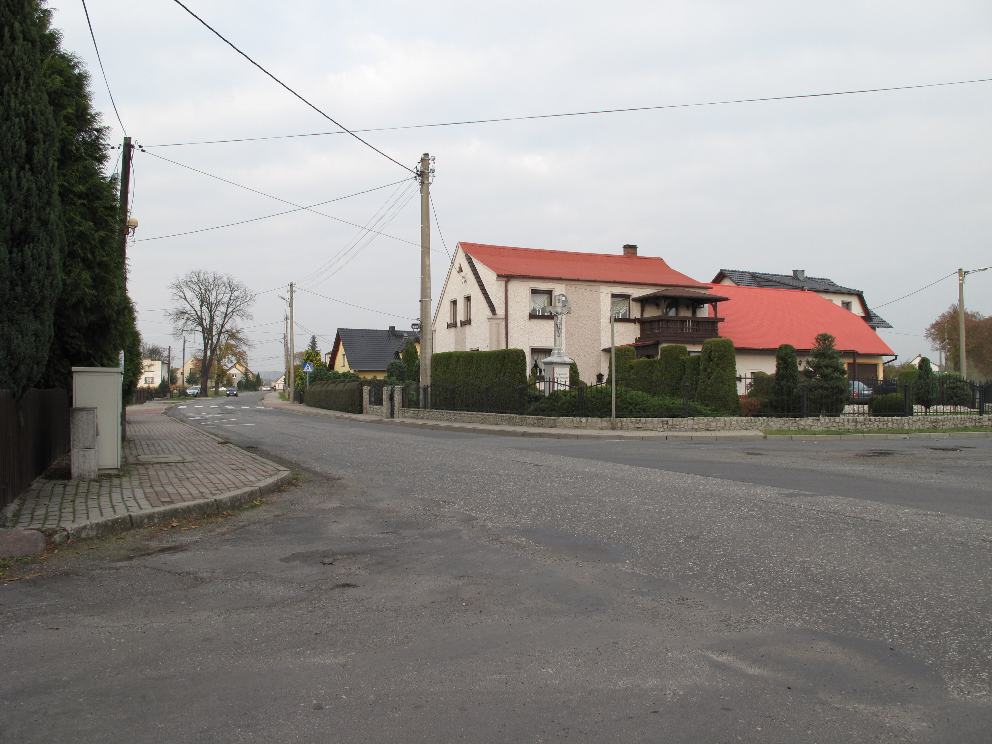 Raszowa. Strzelce County, Poland.